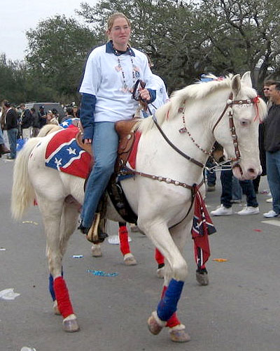 Knights of Nemesis parade, Chalmette Louisiana, 2006. Horse rider.